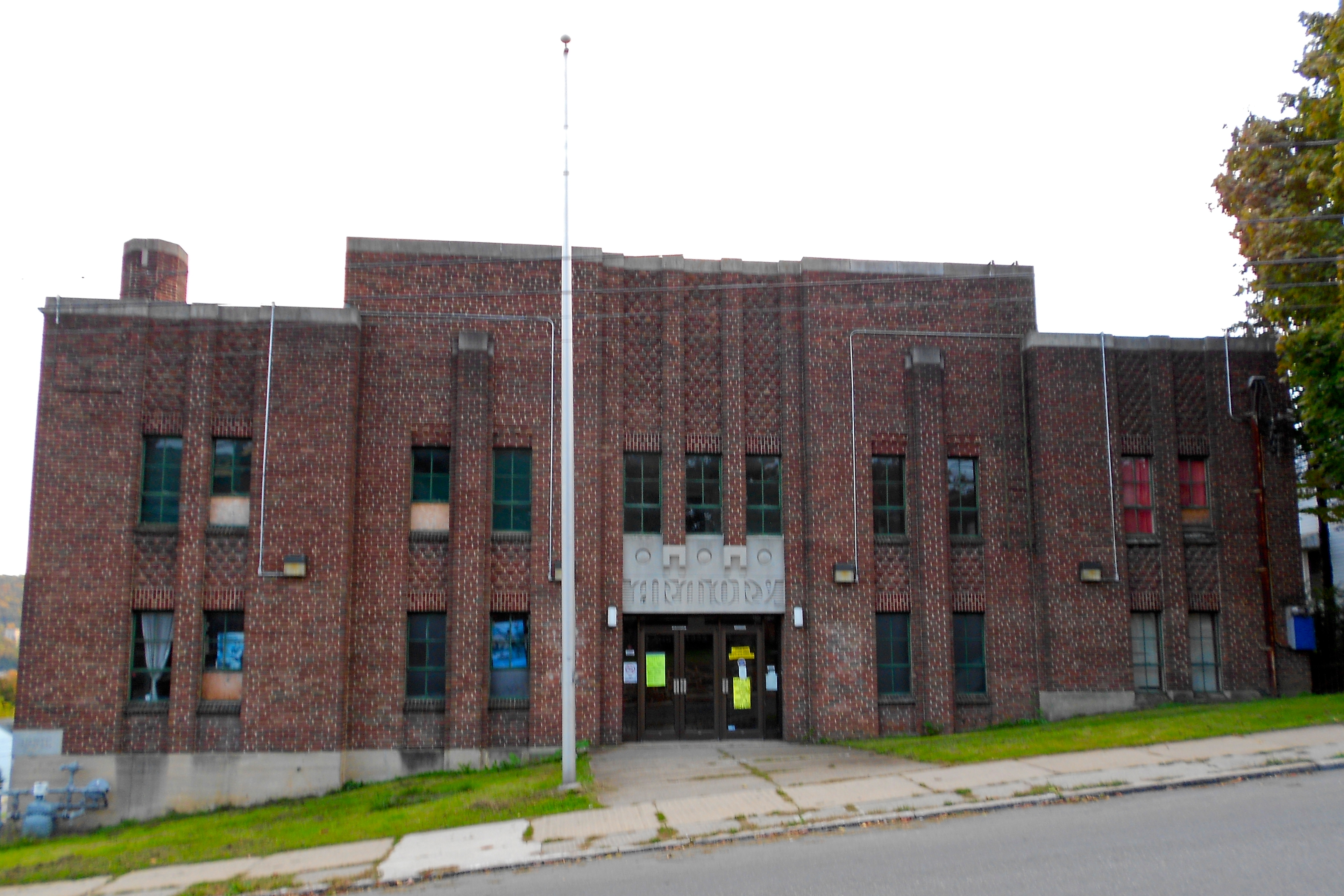 Bethlehem Armory on the NRHP since November 14, 1991 at 301 Prospect Street, Bethlehem, Lehigh County, Pennsylvania. Built 1930